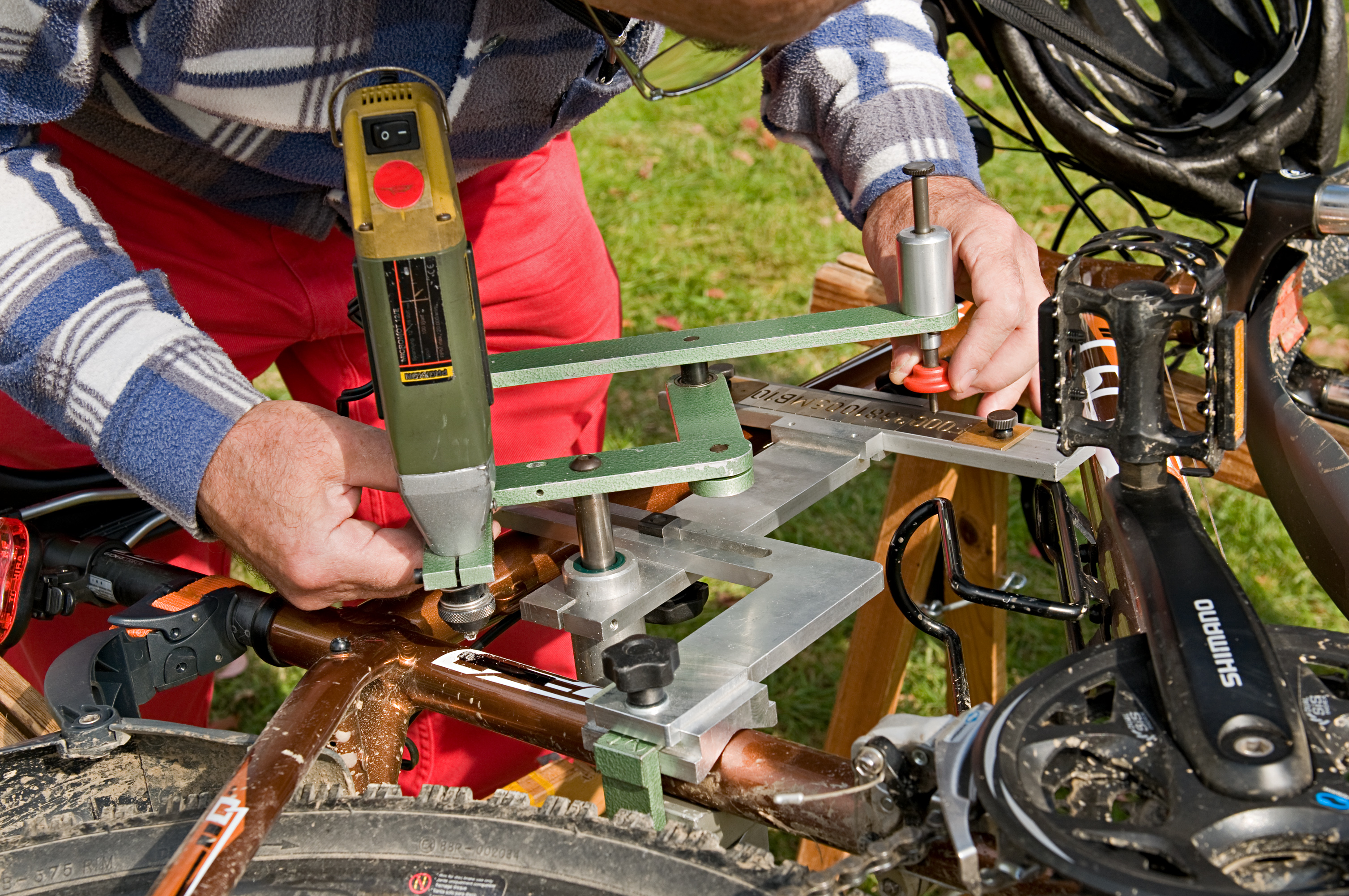 A bicycle frame is being supplied with a FEIN code. The code gets copied from the pattern to the bicycle frame with a pantograph. The FEIN code is a German authentication method to protect personal property from theft by appliyng an individual number which indicates the owner.